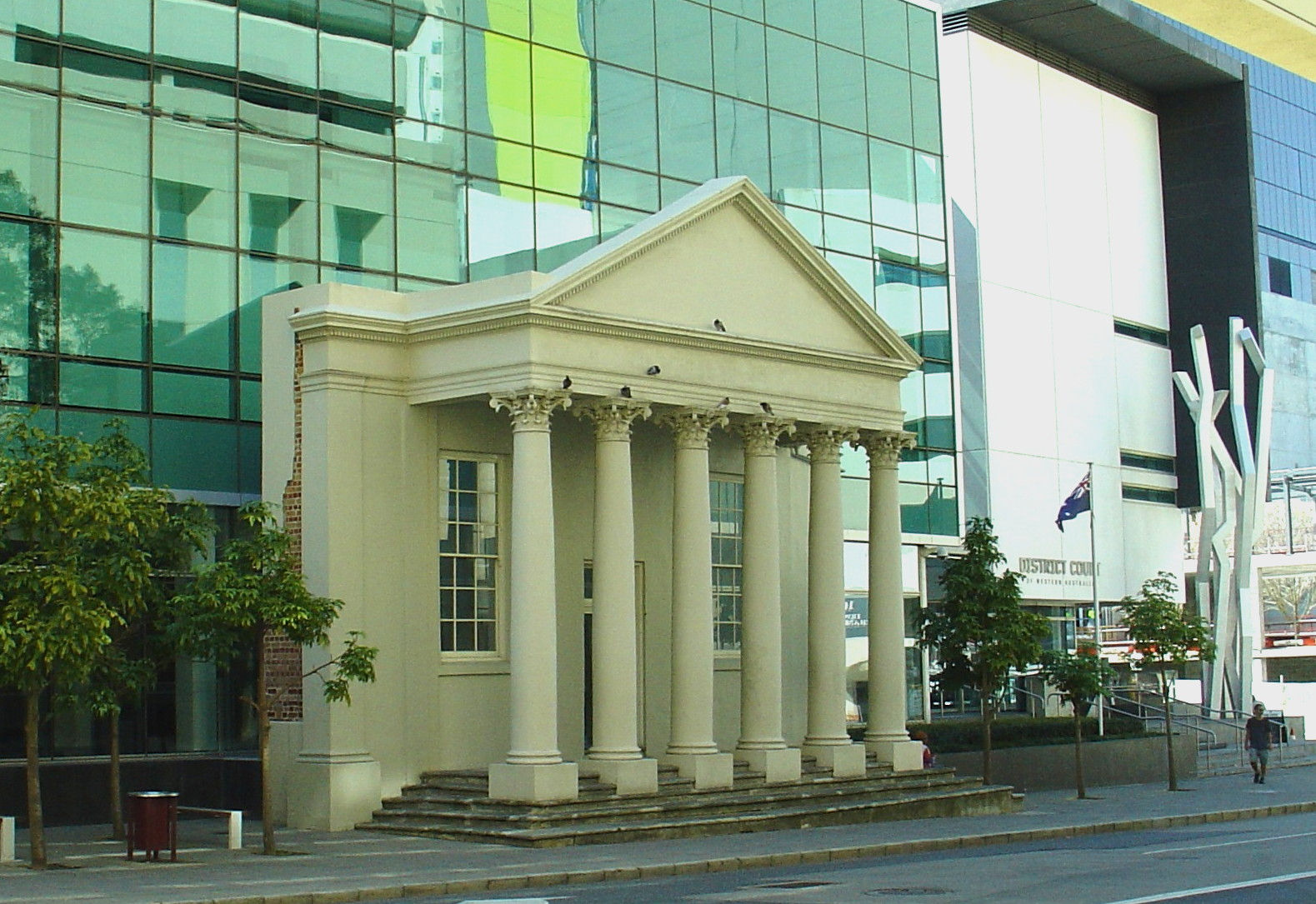 St George's Hall, a Victorian-era theatre in Perth, Western Australia, was demolished in the 1980s. The portico was retained and now fronts the 2008 District Court building